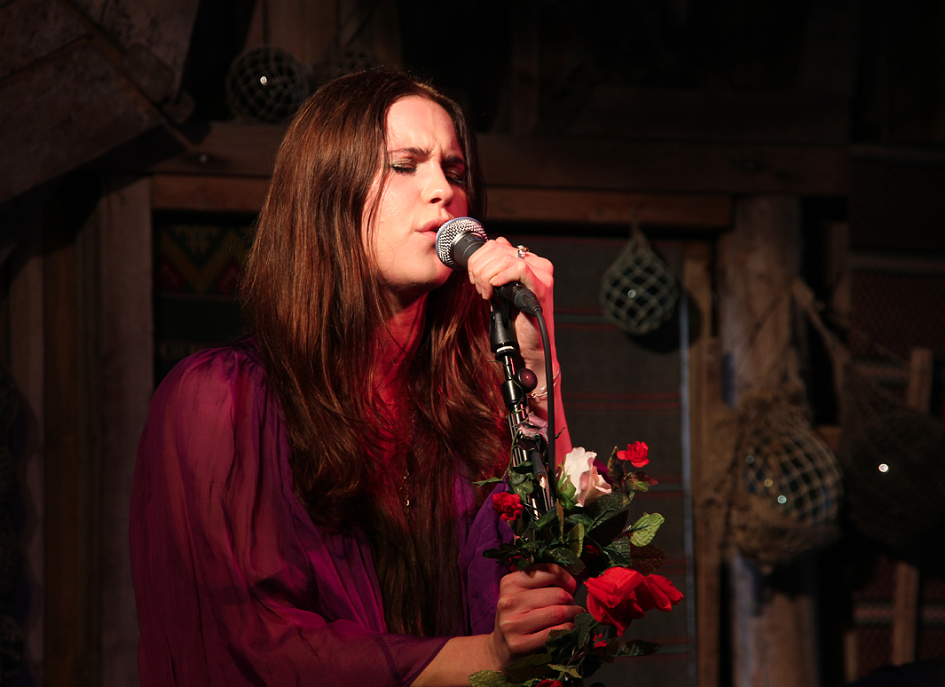 Ida Jenshus